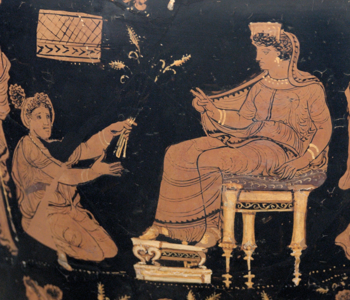 Demeter and Metanira. Detail of the belly of an Apulian red-figure hydria, ca. 340 BC.